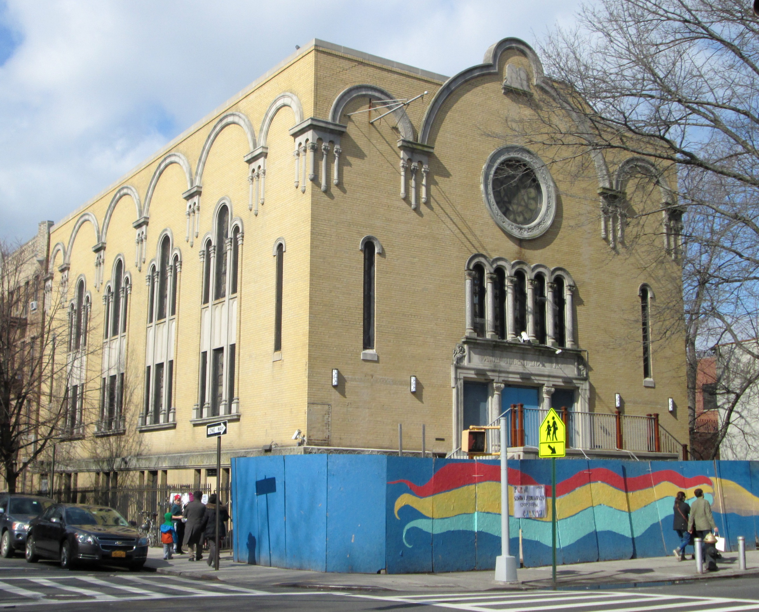 The Park Slope Jewish Center at 1320 8th Avenue on the corner of 14th Street in the South Slope neighborhood of Brooklyn, New York City, was built in 1925 as the orthodox Congregation B'nai Jacob, with Romanesque Revival and Baroque-style elements.